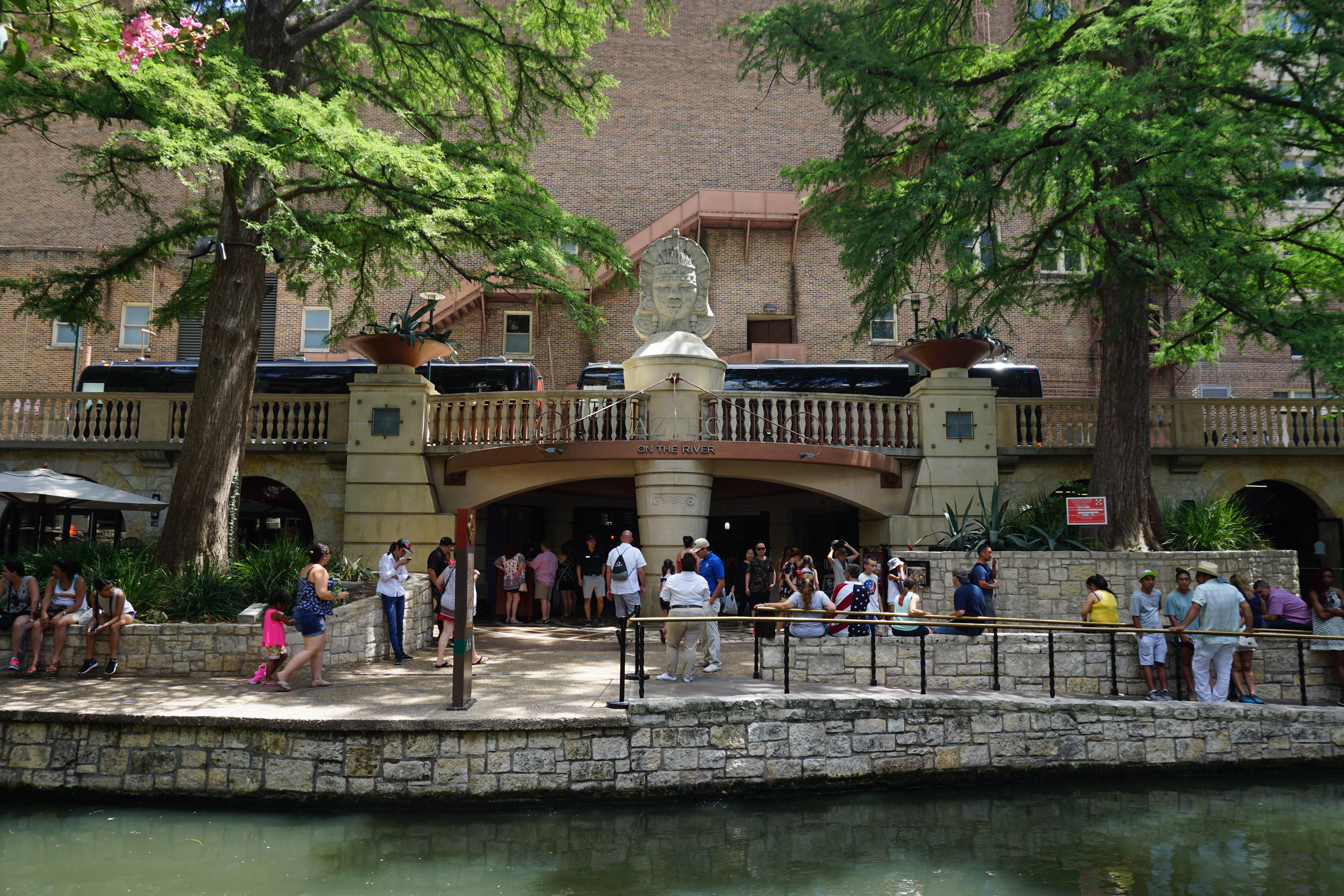 The Aztec Theatre on the San Antonio River Walk in San Antonio, Texas (United States).